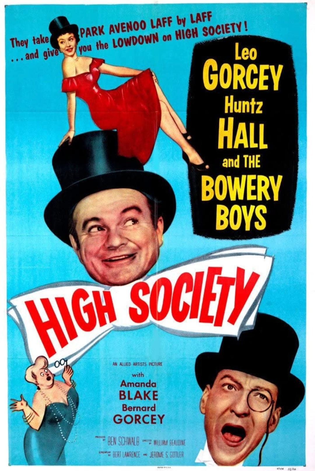 Poster for the 1956 film High Society